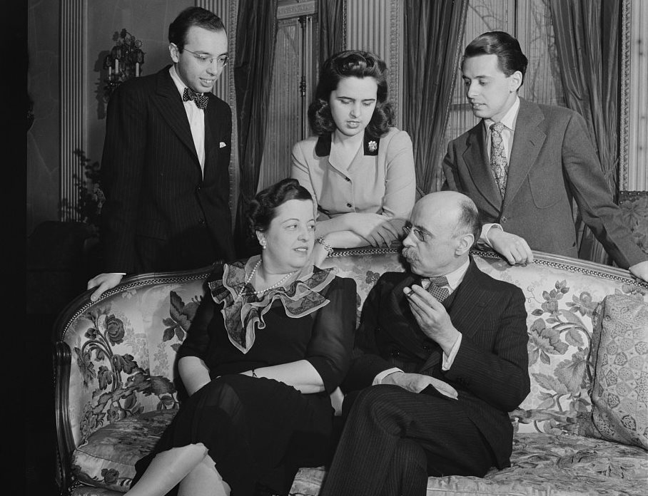 Washington, D.C. The Turkish Embassy. Ambassador Ertrogren [i.e., Ertegun] and his family